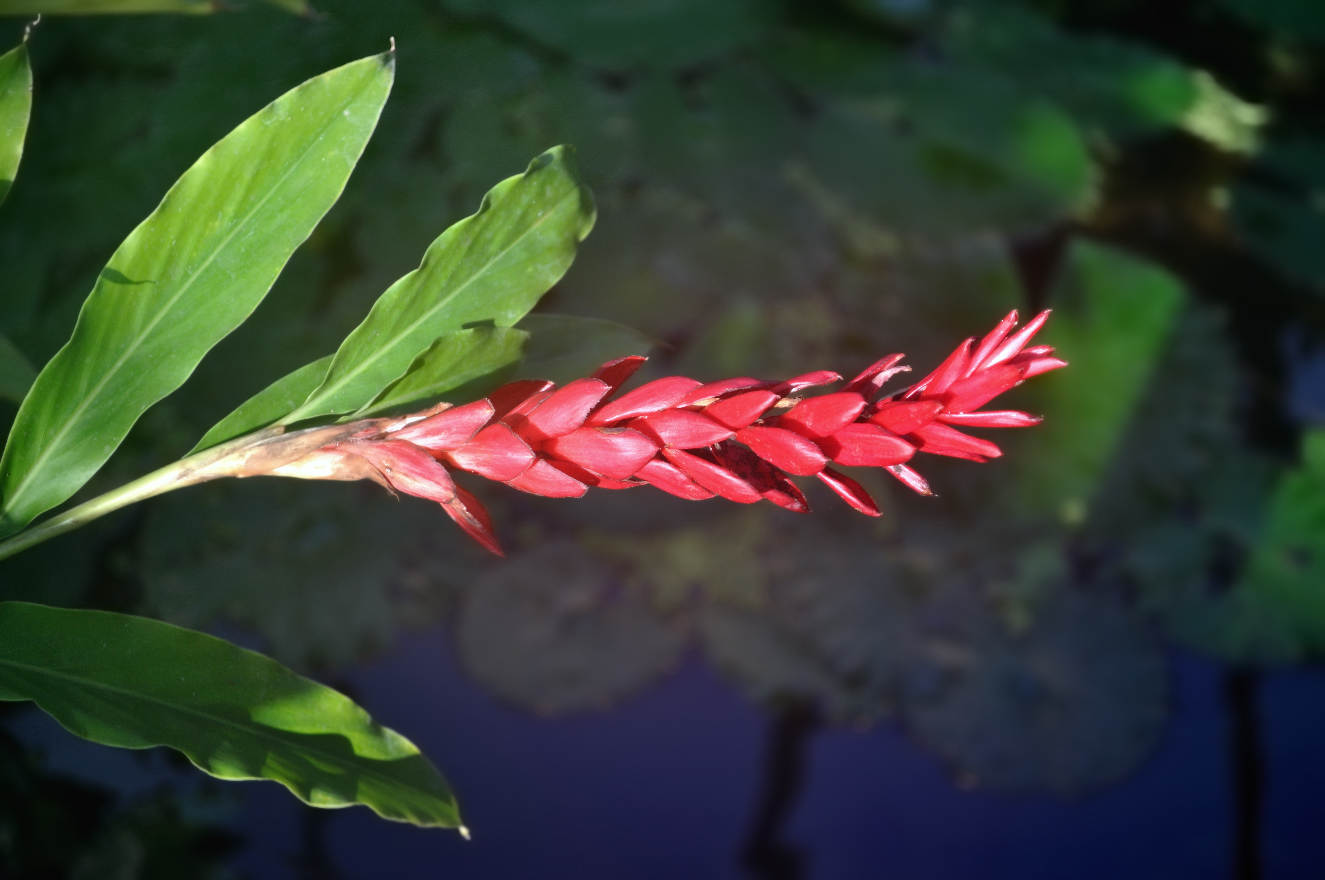 Red Ginger photographed in Hannover, Lower Saxony, Germany.